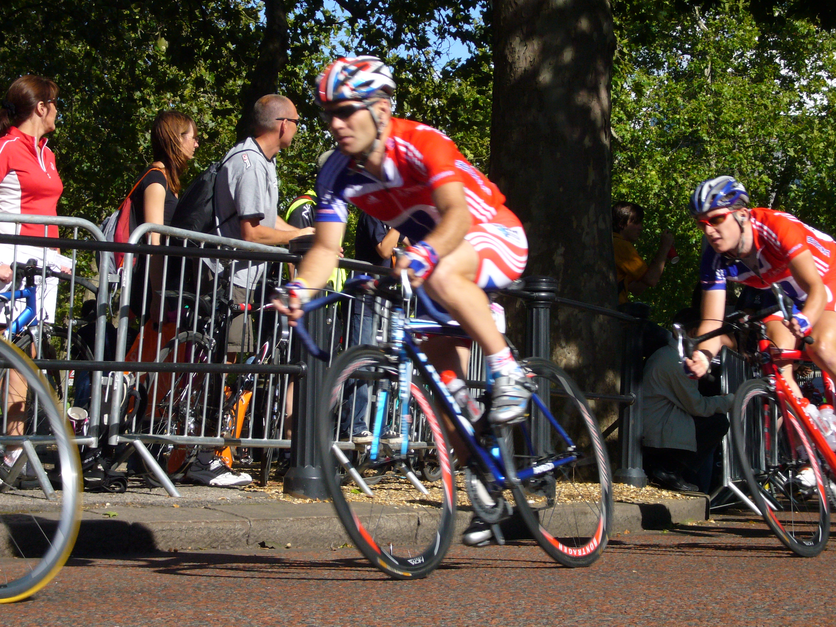 Roger Hammond riding for the Great Britain team at the Tour of Britain 2006 in London